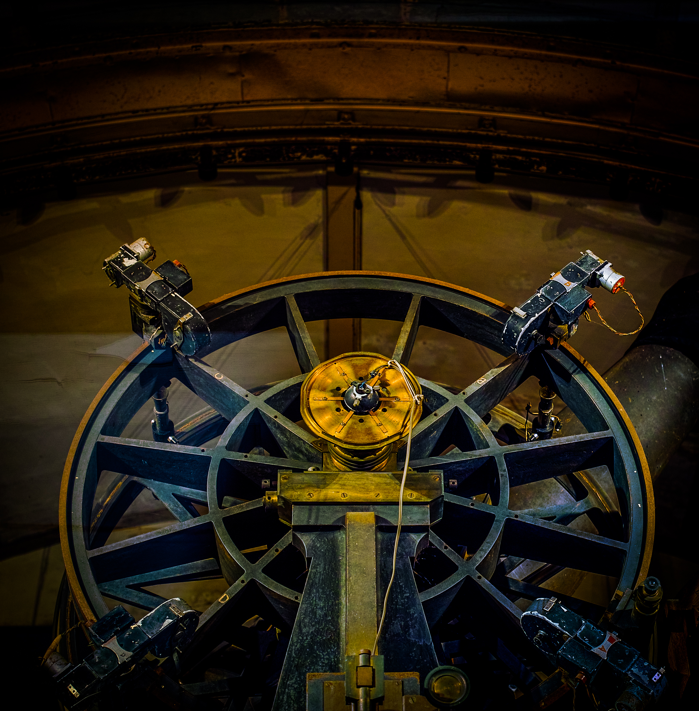 Gautier Meridian circle made in 1904 at the National Astronomical Observatory of Japan Mitaka campus.